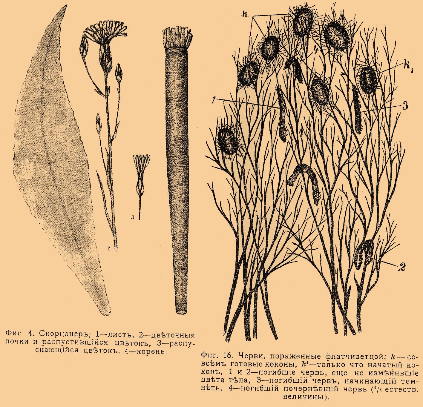 Illustration from Brockhaus and Efron Encyclopedic Dictionary (1890—1907)